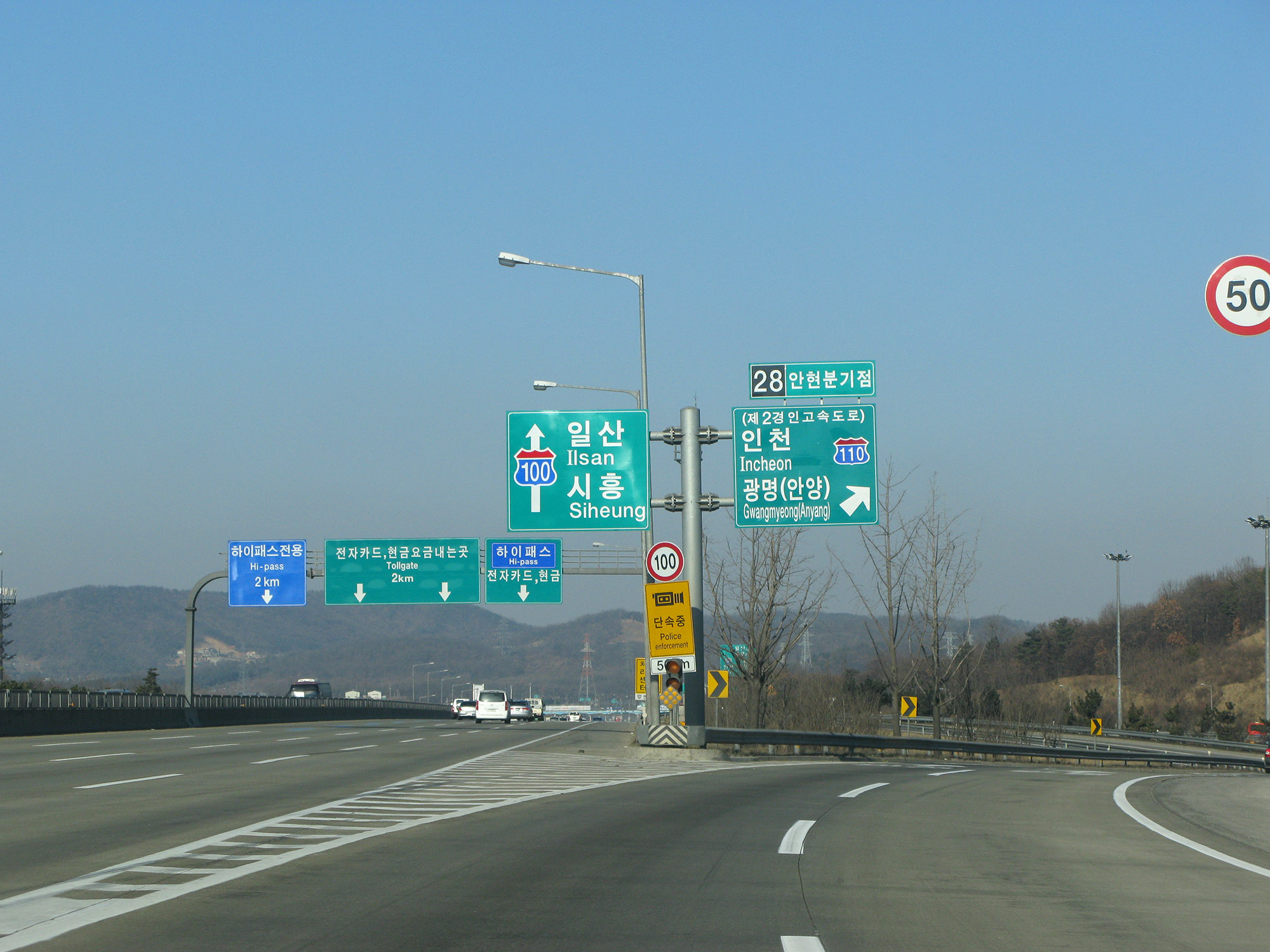 Seoul Ring Expressway, 2nd Gyeongin Expressway Anhyeon JCT